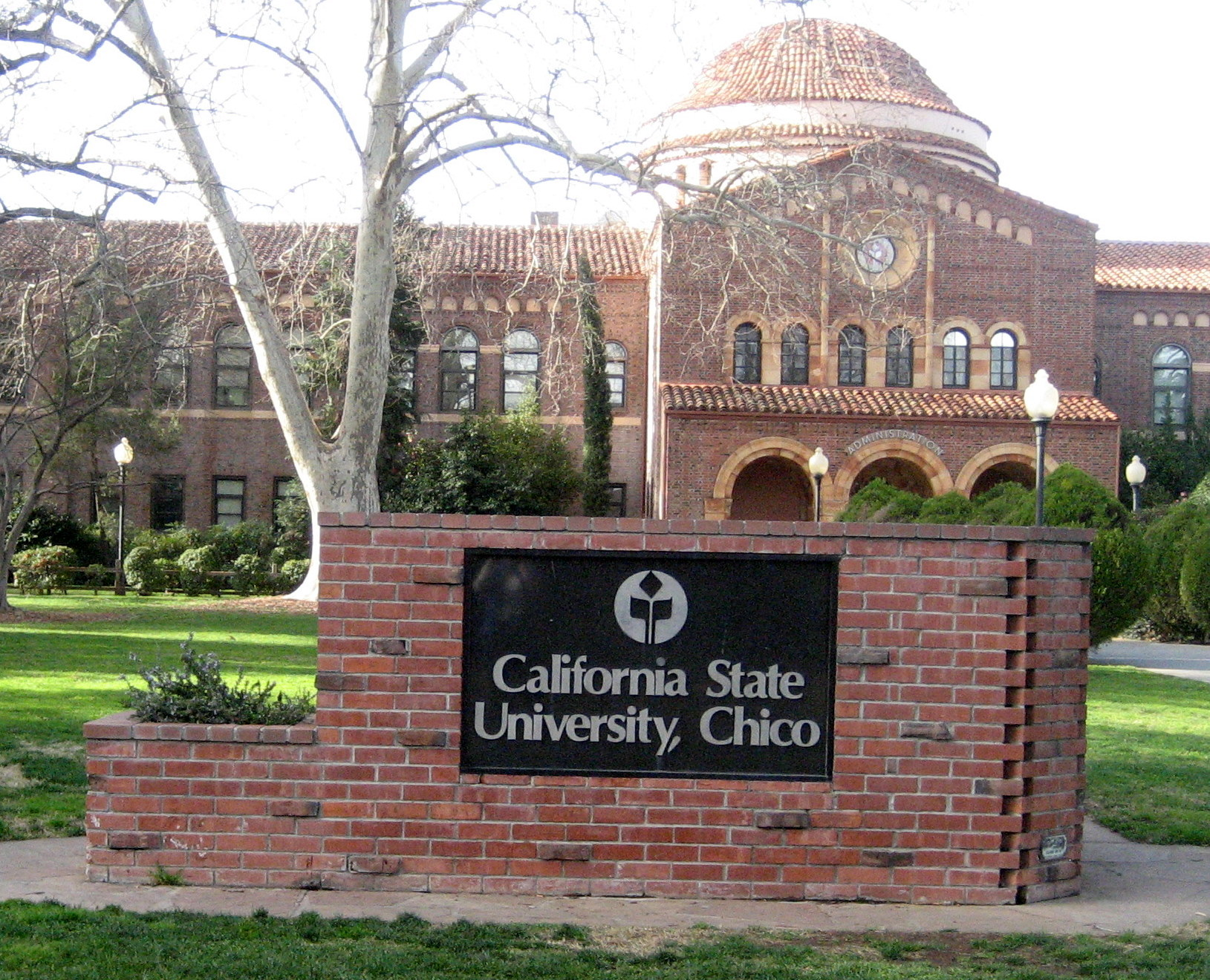 Sign at the California State University, Chico, California, USA.